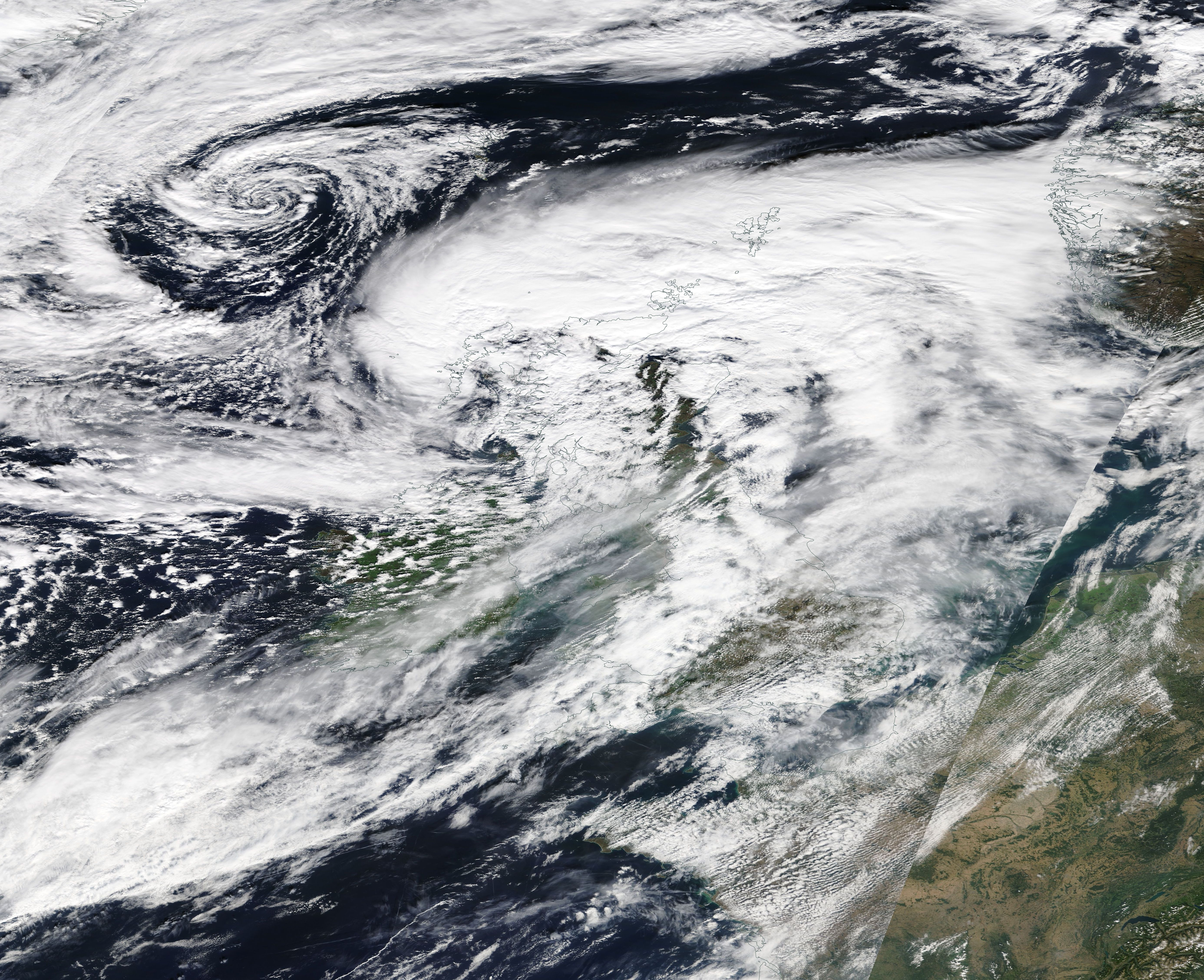 Storm Ali of the 2018–19 European windstorm season on 19 September 2018 as it was making landfall in north-western Scotland.